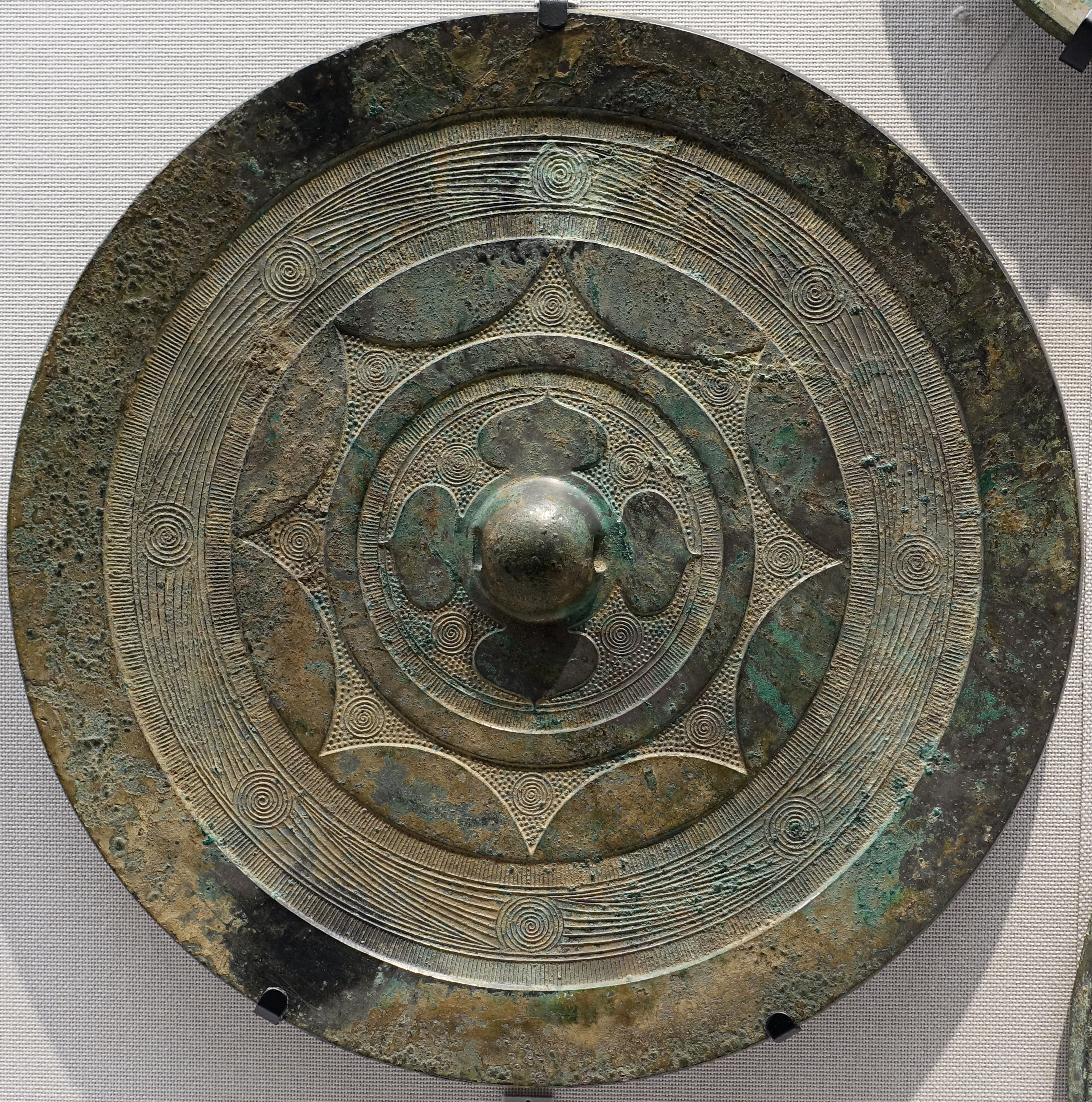 Exhibit in the Tokyo National Museum, Tokyo, Japan. This work is old enough so that it is in the public domain.